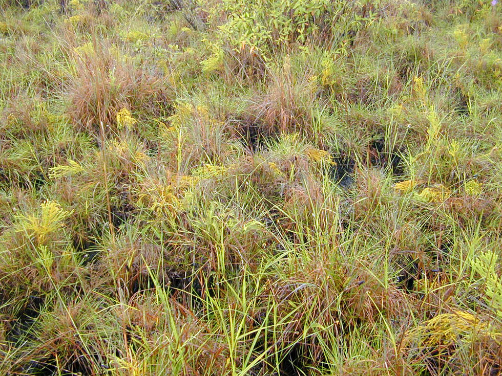 Stand of mostly Xyris complanata (Xyridaceae) in a small wetland on the Island of Hawai‘i.